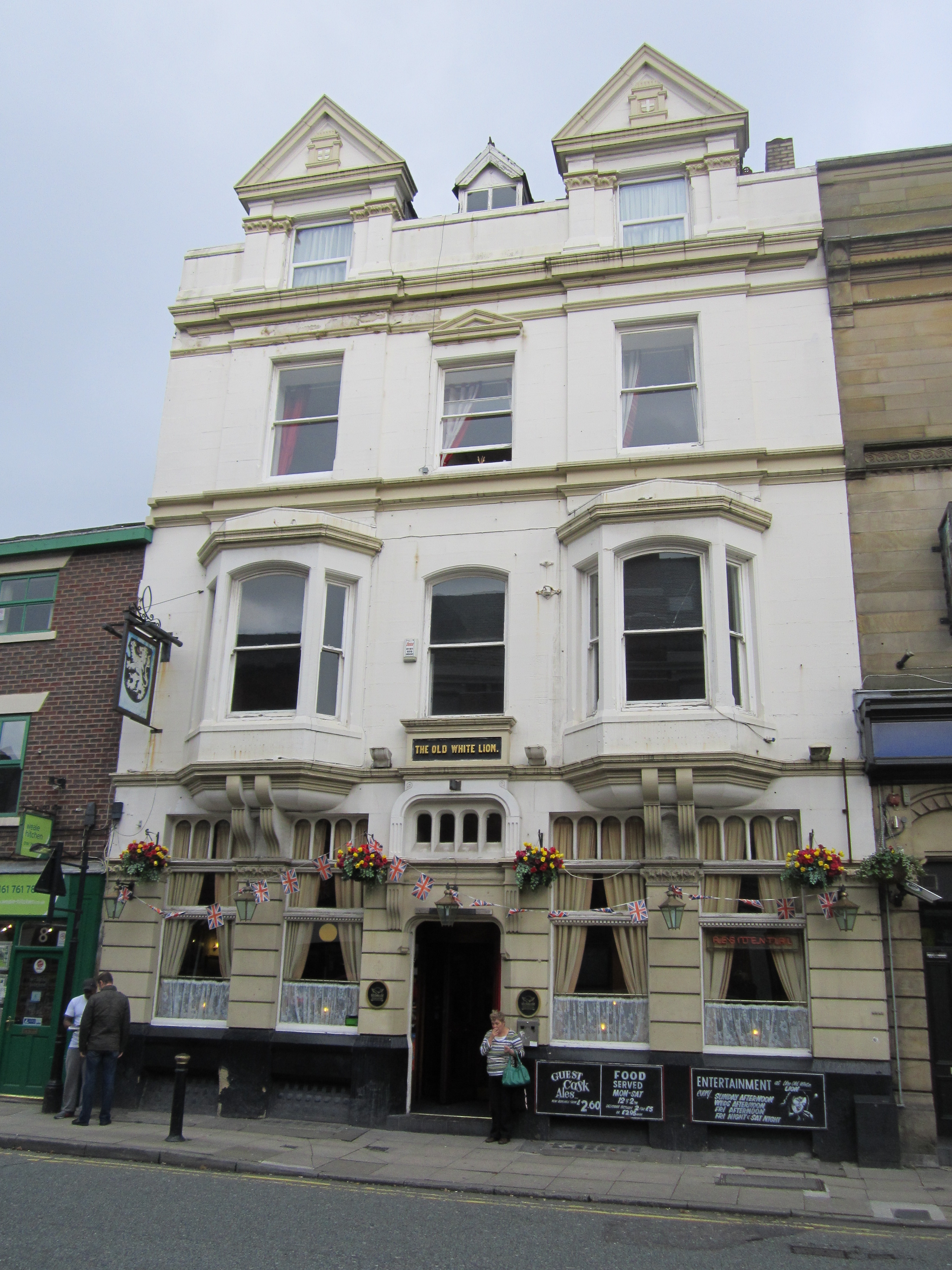 Photo taken at Bury, Greater Manchester, England.